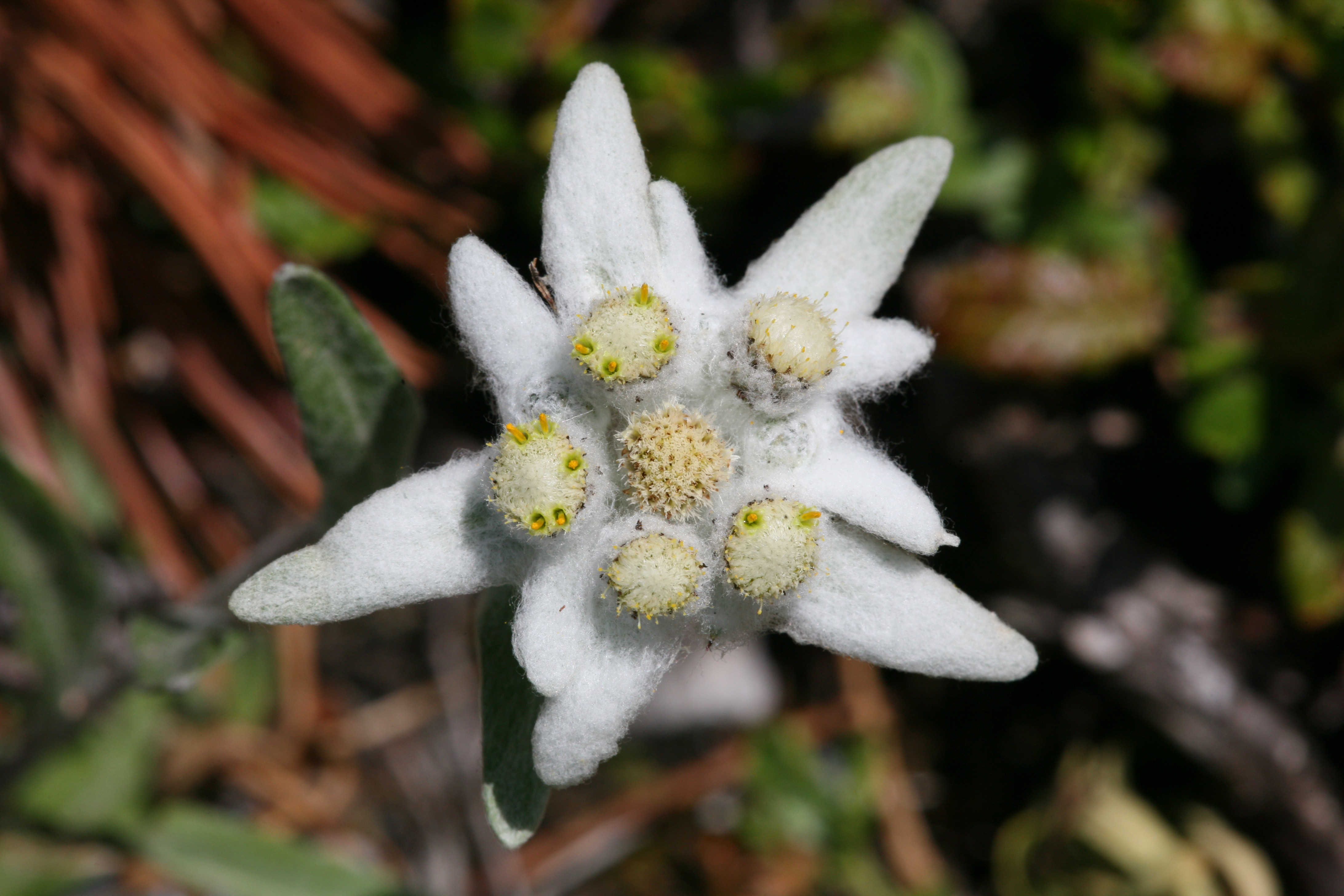 Edelweiss flower buds